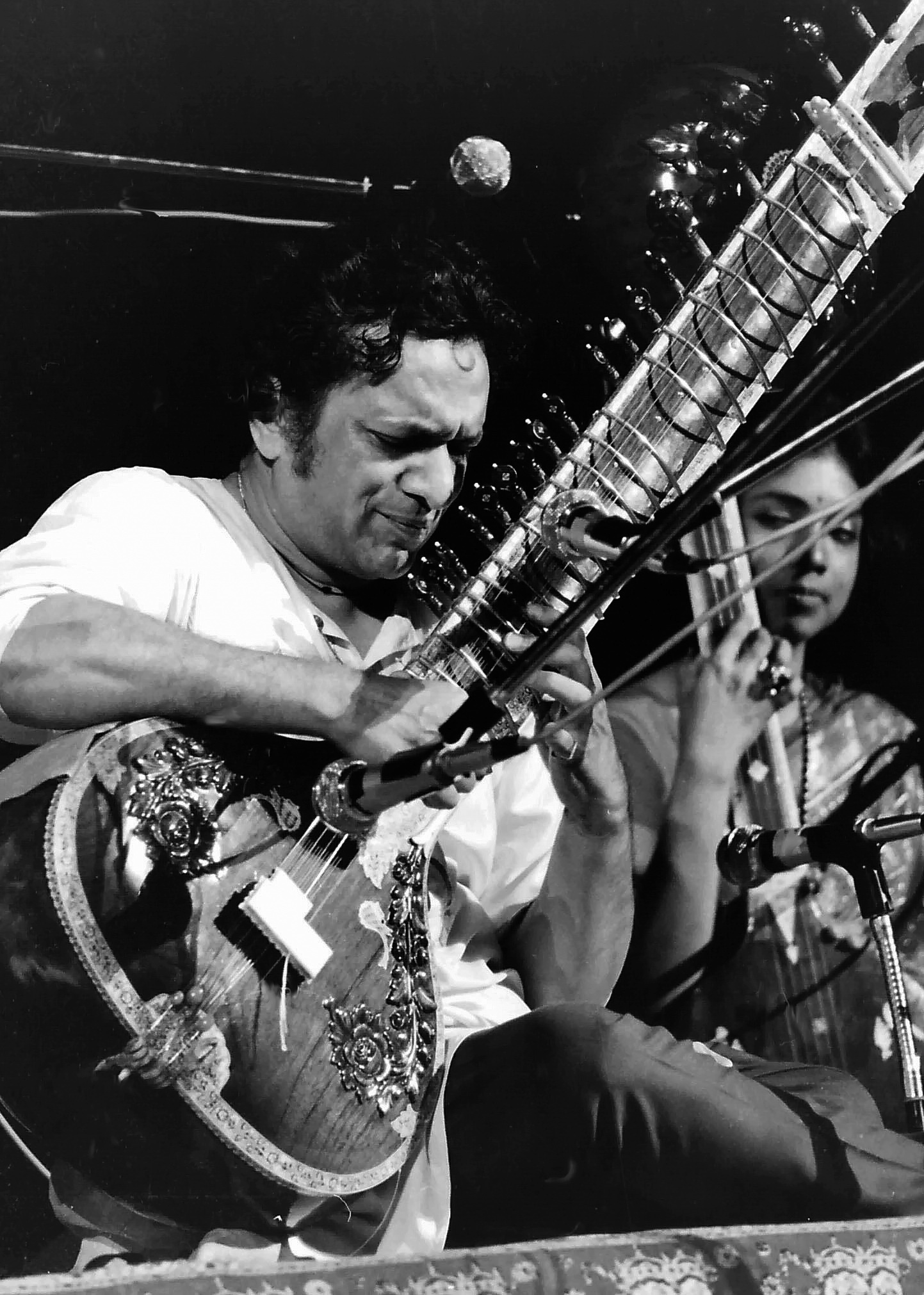 At Woodstock